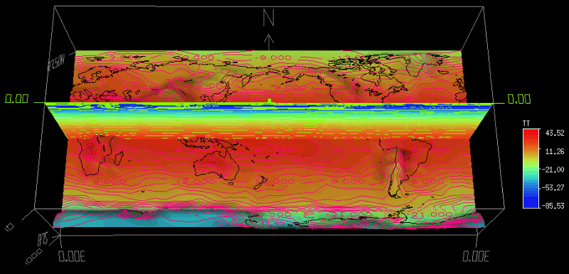 Example of the Vis5D working screen